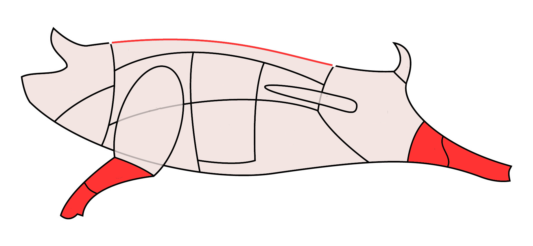 Parts pig from which produces jellied meat